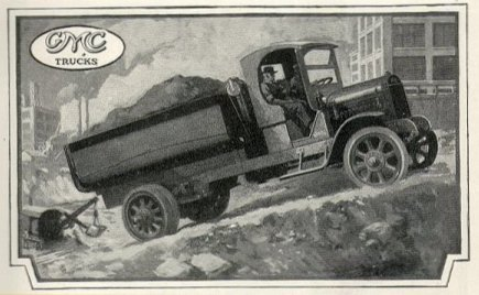 Truck Image, cropped from GMC Trucks advertisement, scanned by Infrogmation from June, en:1919 National Geographic Magazine. Reference copy of the full ad: Image:GMCTrucks1919Ad.jpg